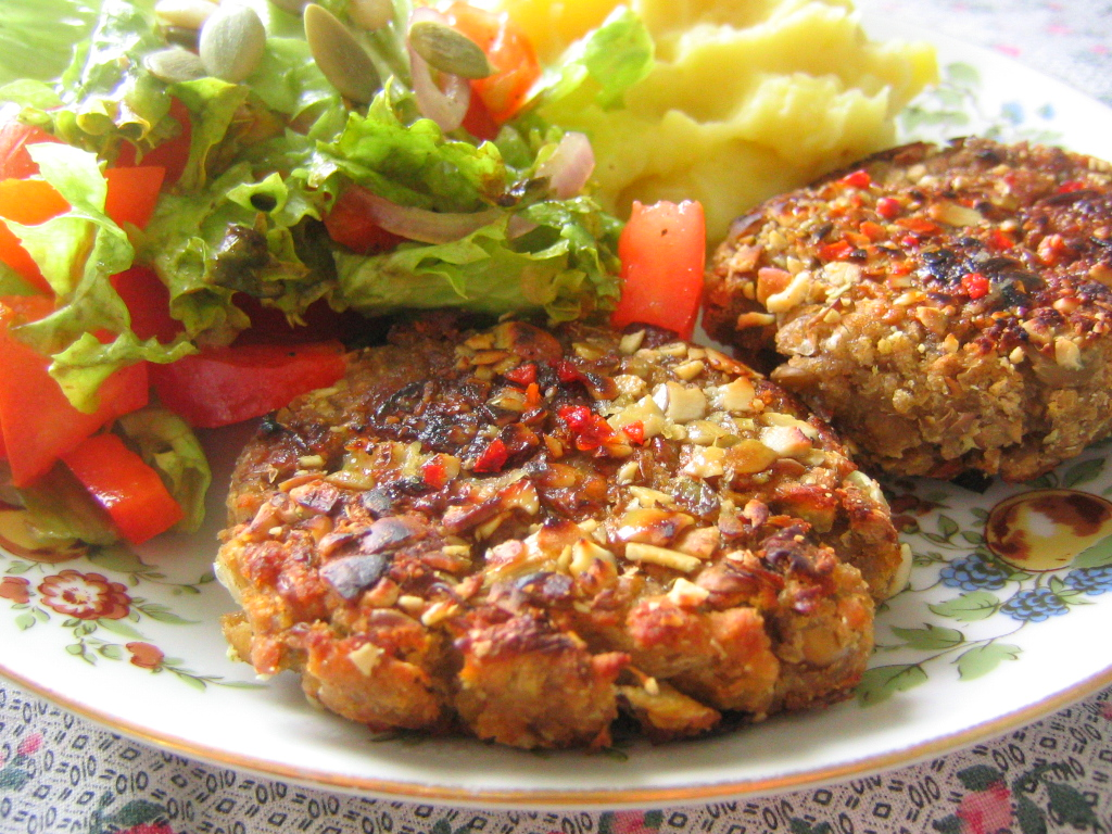 Vegan Pumpkin Seed-Crusted Lentil Patties with Roasted Garlic Mashed Potatoes and Salad